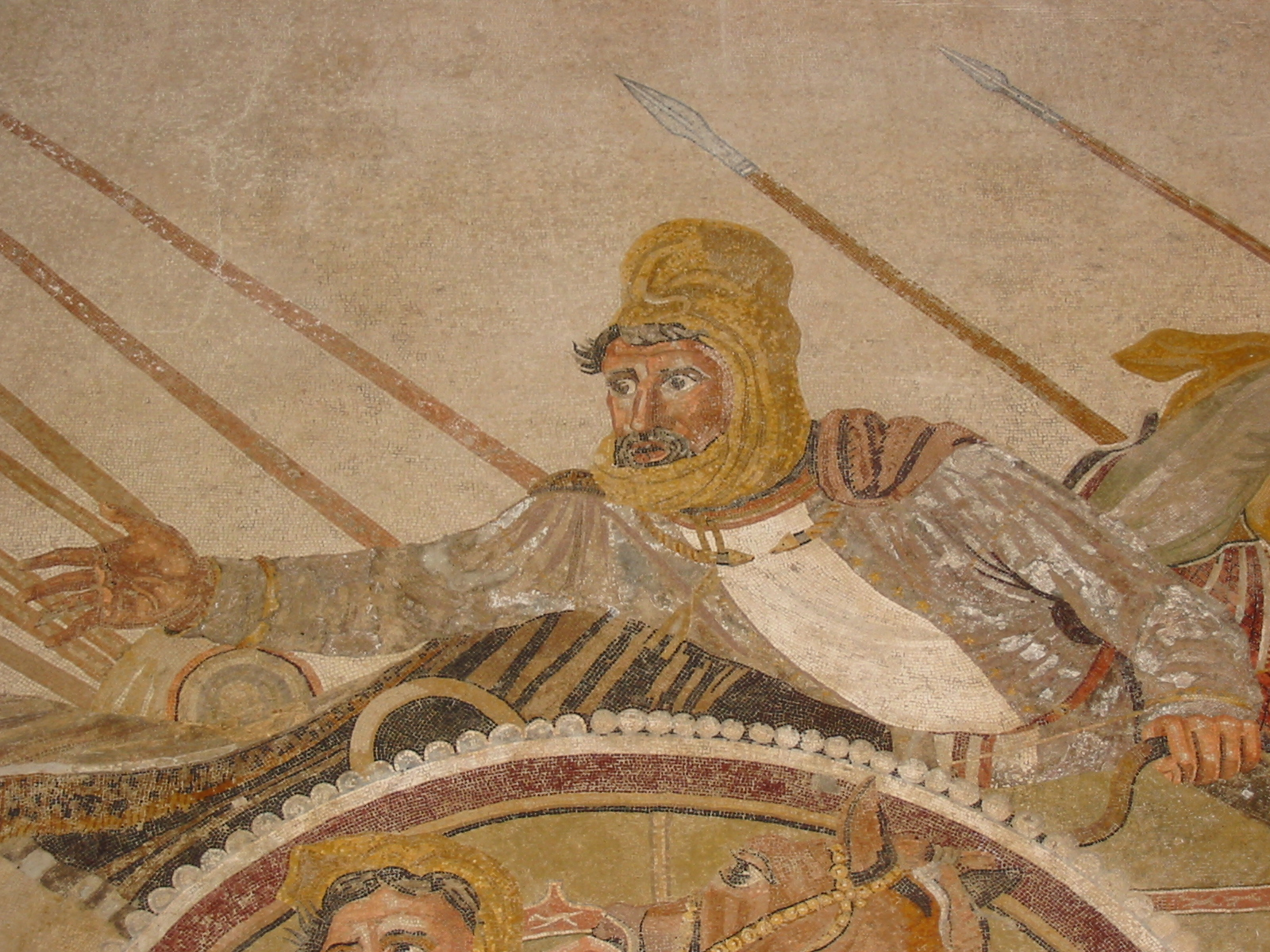 Close up of Darius III from the Alexander Mosaic, in the Naples National Archaeological Museum.